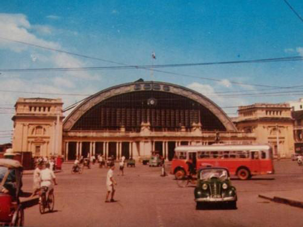 Hualumpong Station